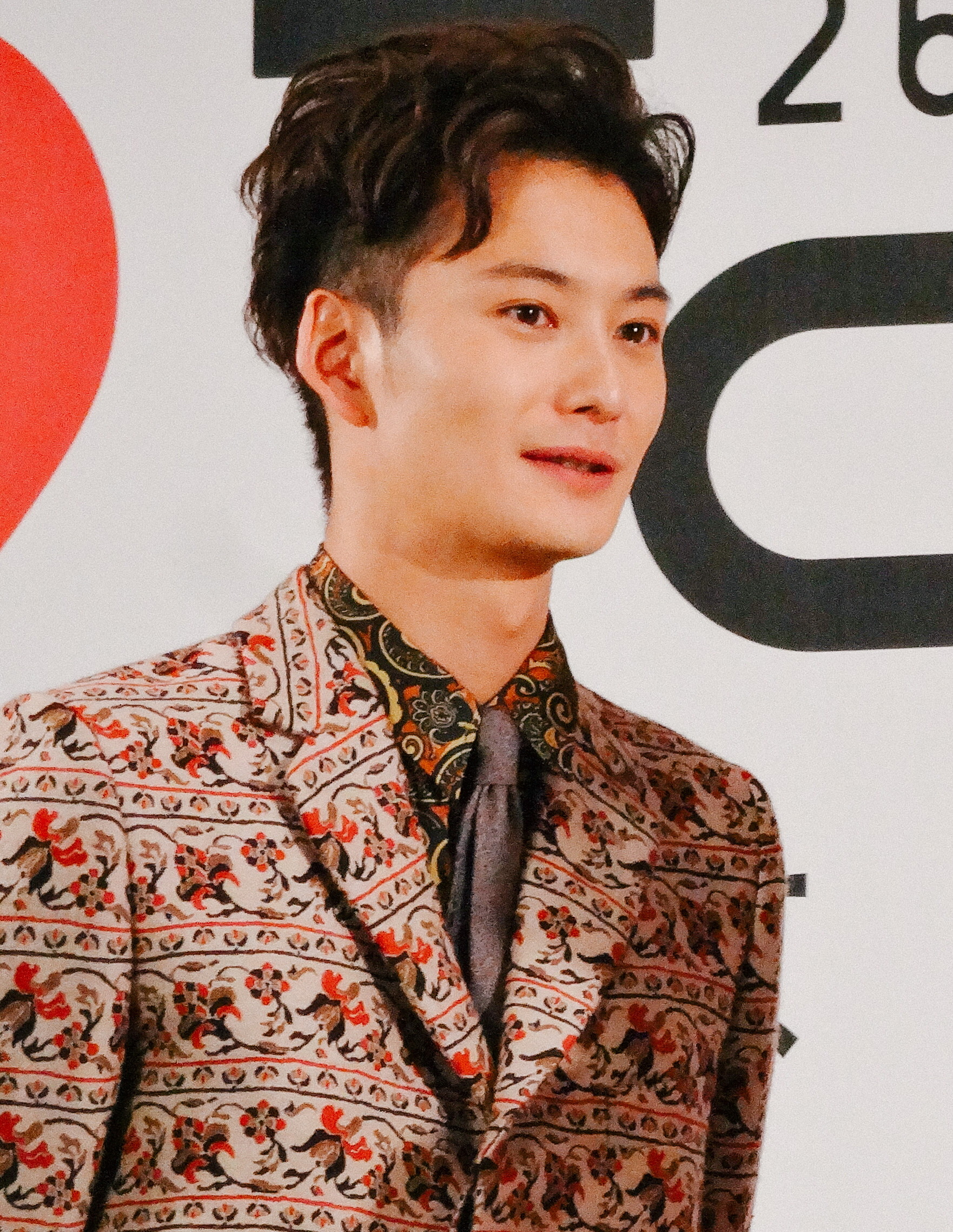 26th Tokyo International Film Festival Masaki Okada